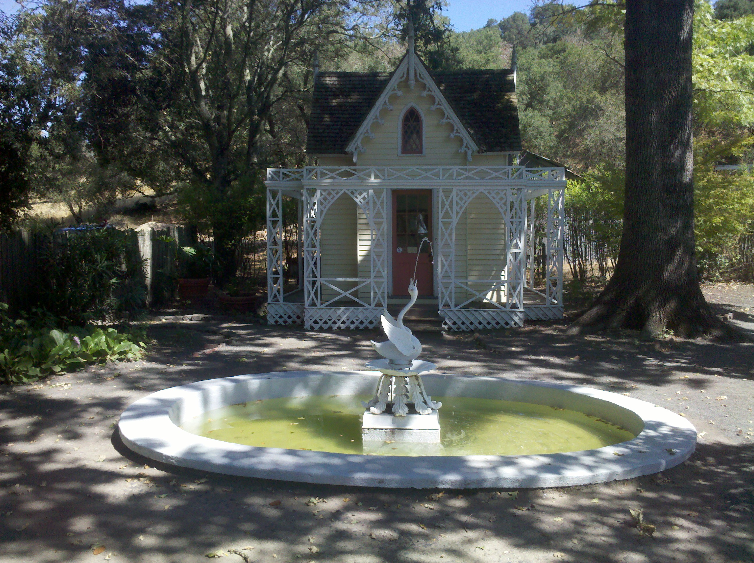 El Delirio cottage on Vallejo Estate